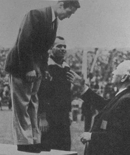 Celal Atik and Hermann Baumann at the London Olympics